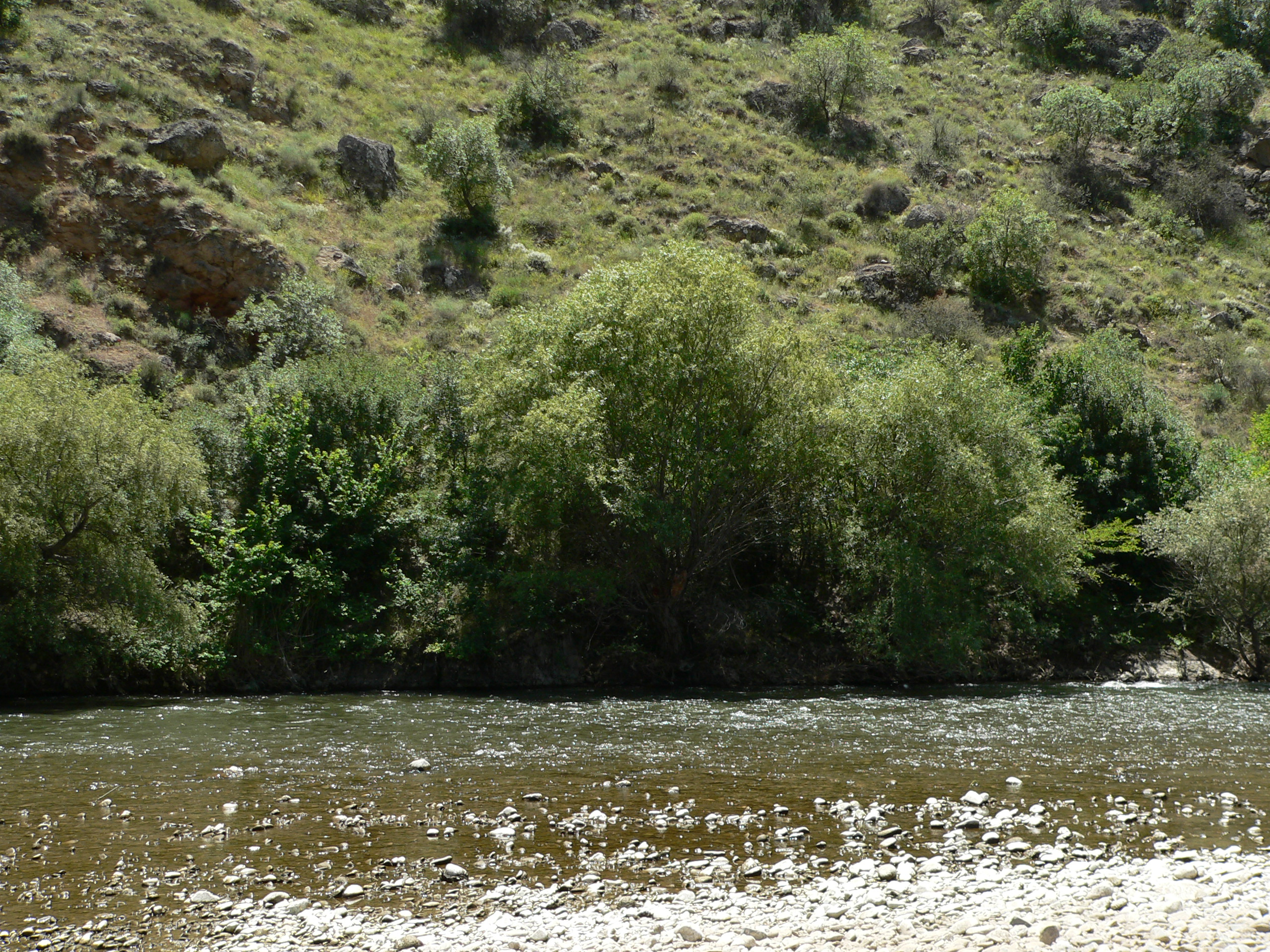 Arpa river. Yeghegnadzor, Armenia.